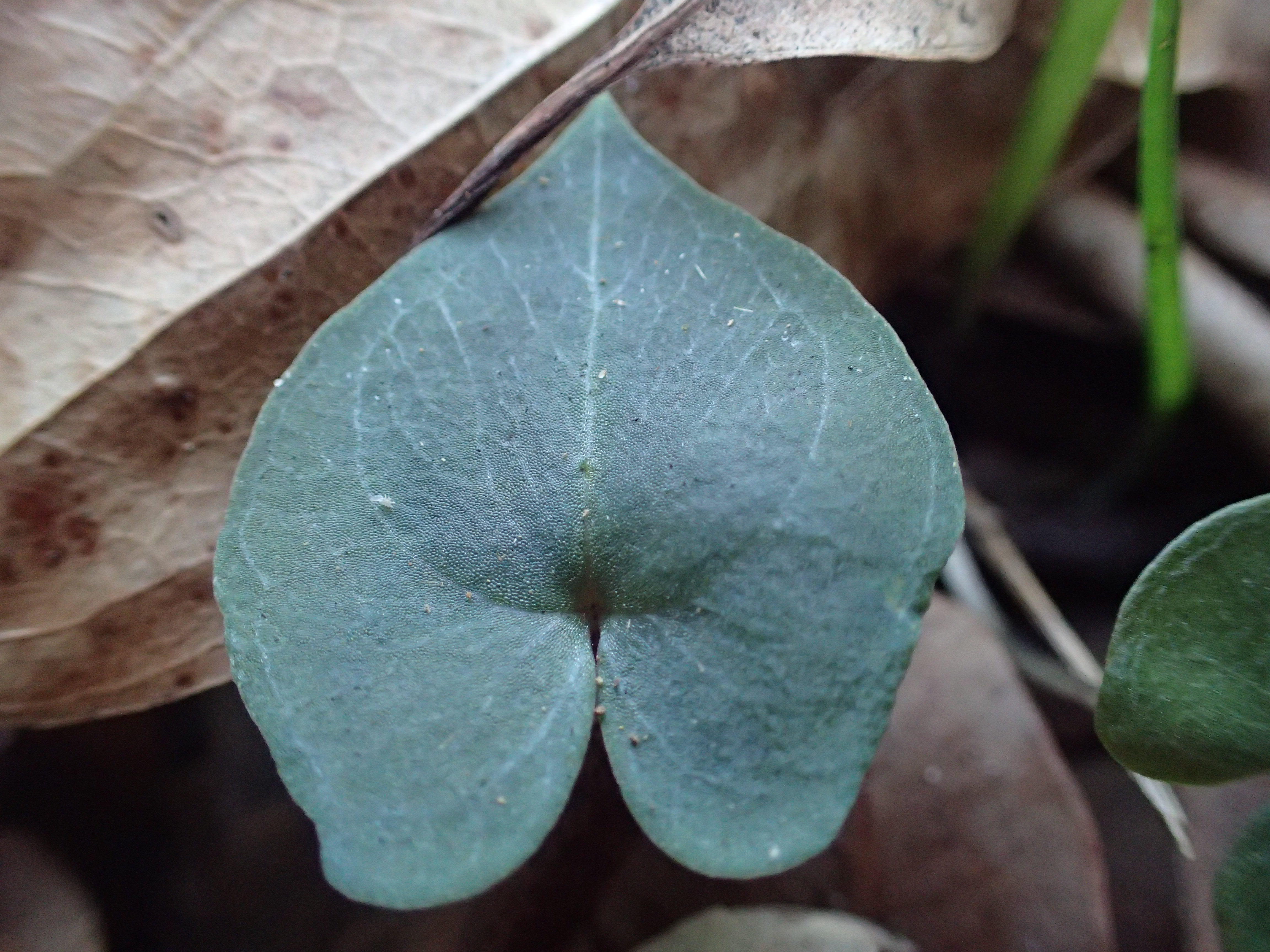 Acianthus exiguus leaf near Repton